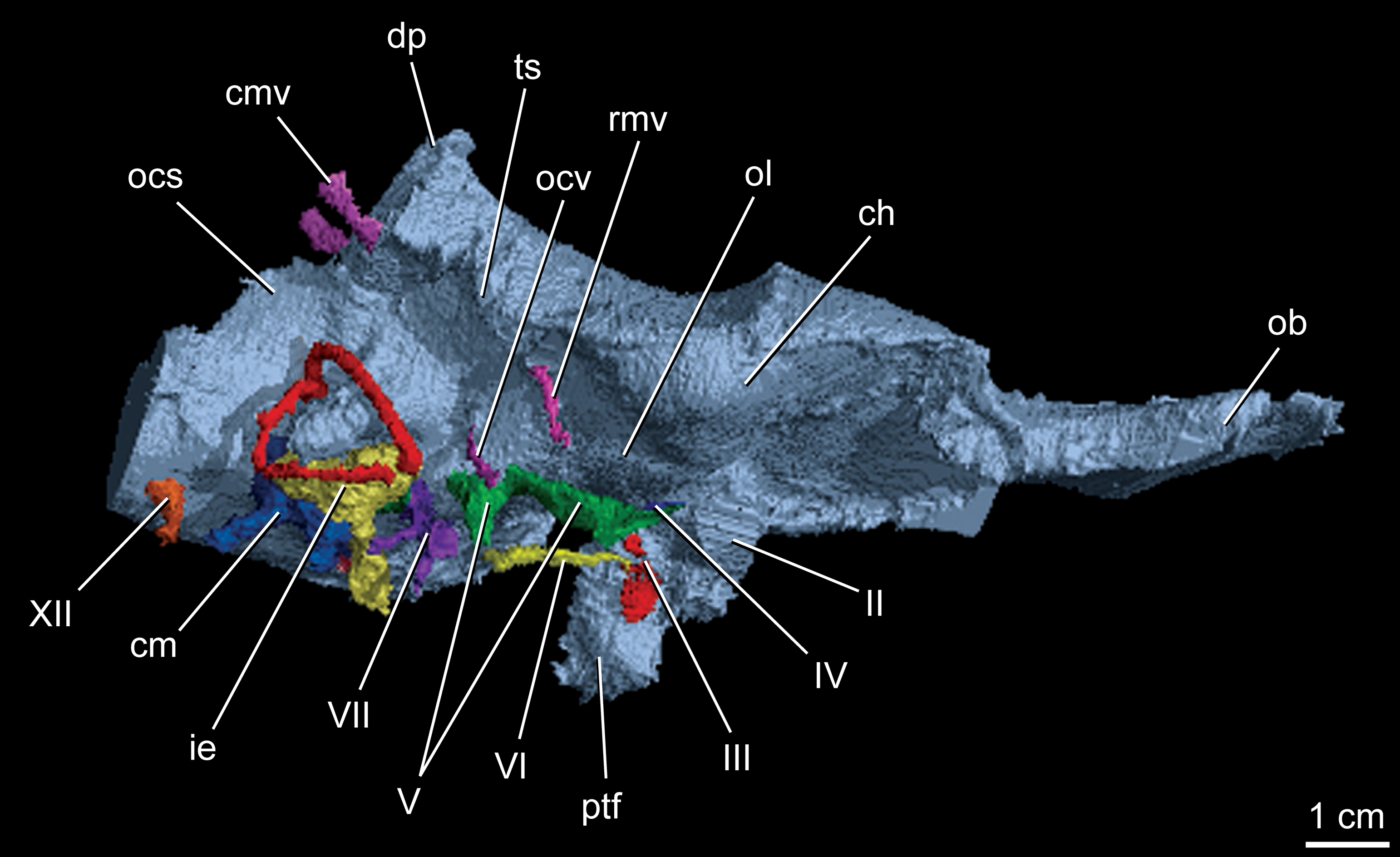 Right lateral view of labeled endocranial casts of Alioramus altai (IGM 100/1844). These casts include the endocranial cavity, cranial nerve roots, selected vasculature, and inner ear. II, optic canal; III, oculomotor canal; IV, trochlear canal; V, trigeminal canals; VI, abducens canal; VII, facial canals; XII, hypoglossal canal; cm, cavum metoticum, includes lateral paths of glossopharyngeal and vagus nerves; cmv, caudal middle cerebral vein canal; ch, cerebral hemisphere; dp, dorsal peak (dural sinus); ie, inner ear; ob, olfactory bulb; ocs, occipital sinus; ocv, orbitocerebral vein; ol, optic lobe; ptf, pituitary fossa; rmv, rostral middle cerebral vein canal.